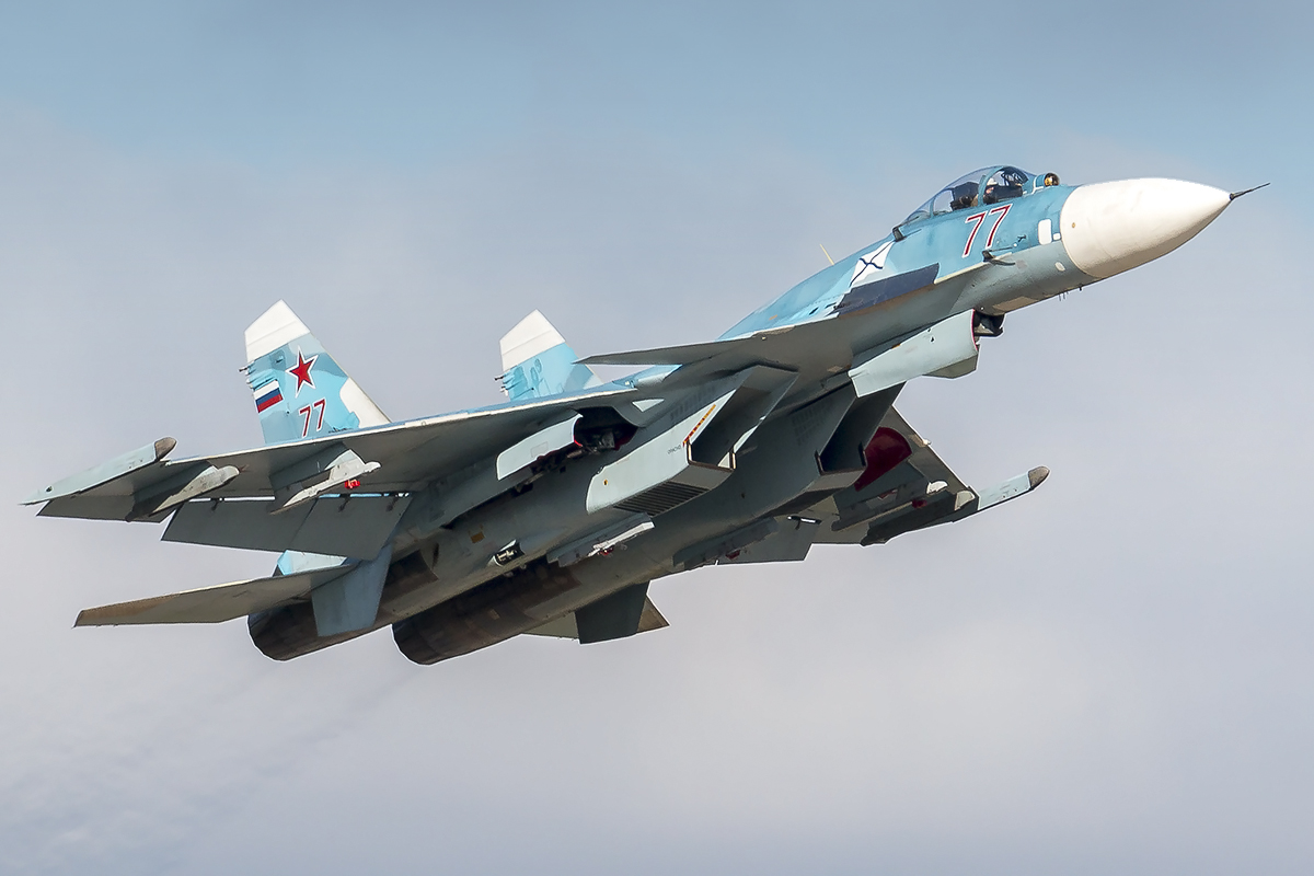 Sukhoi Su-33 77 RED at Kubinka Air Base